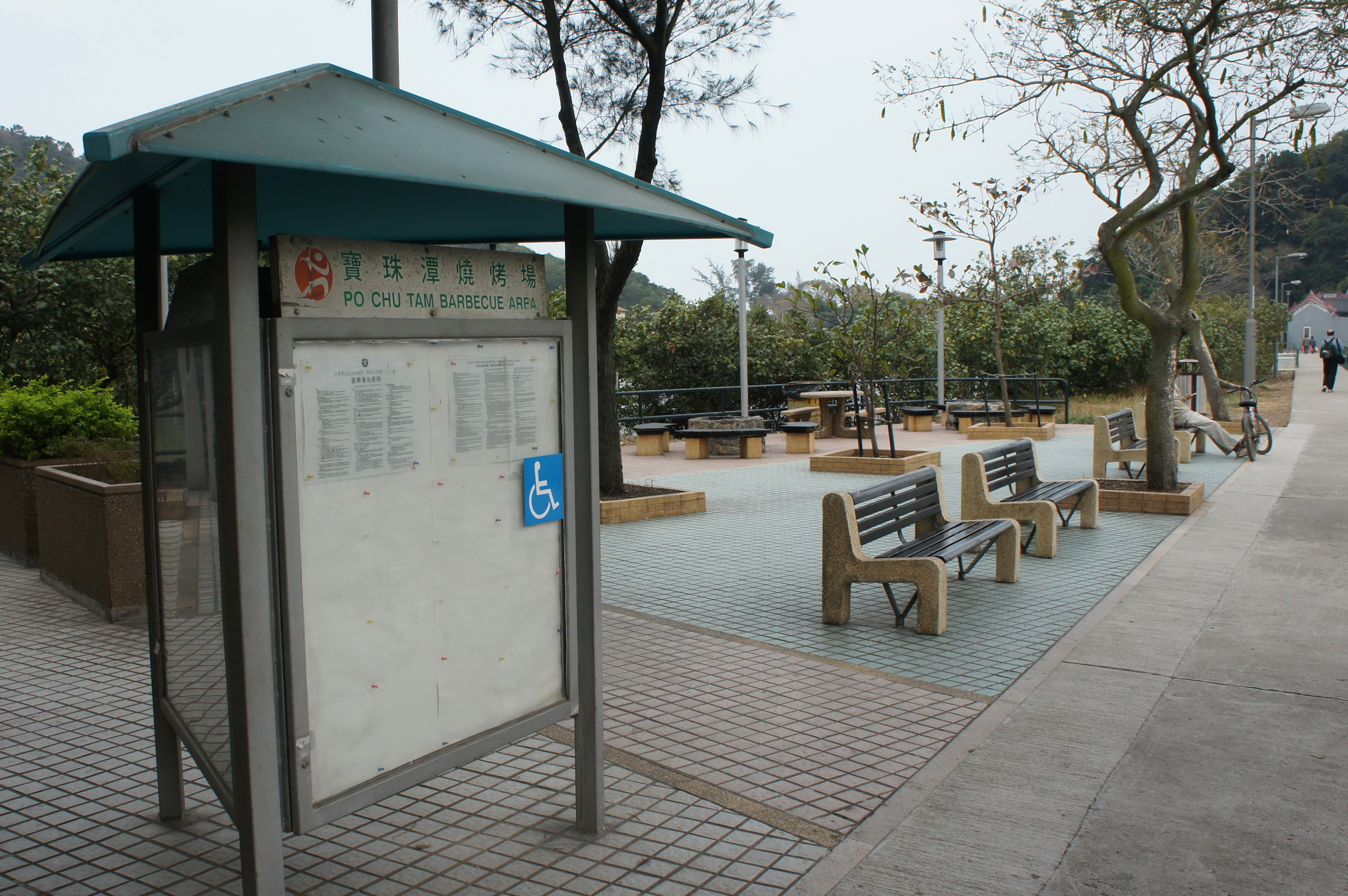 Po Chu Tam Barbecue Area, Tai O, Lantau Island, Hong Kong.